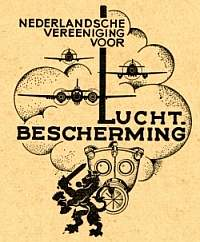 lOGO of the Dutch Society fotr Protection against Air Attacks 1933